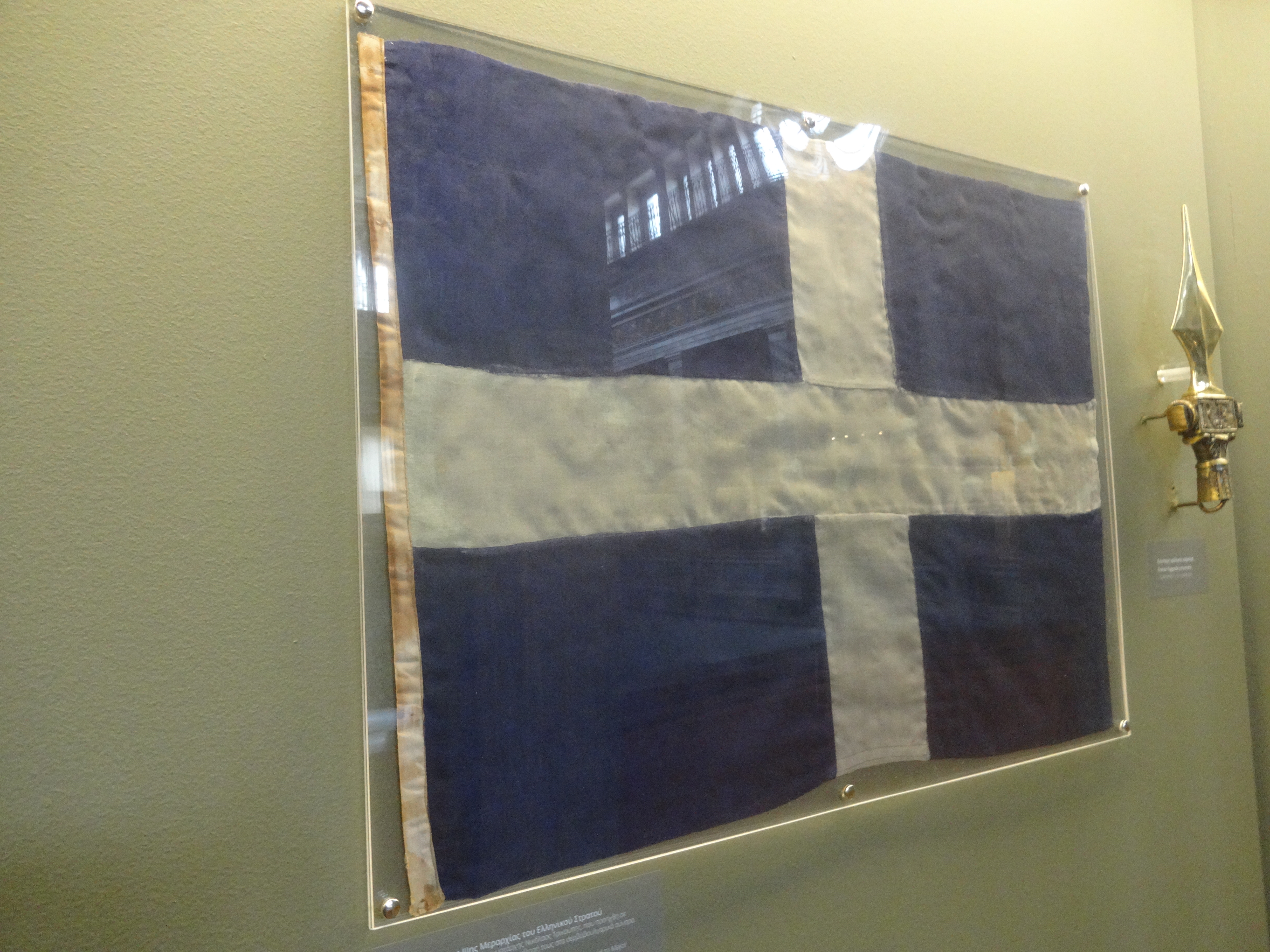 Flag of Greek III division on Salonica front, National historic museum. Athens, Greece